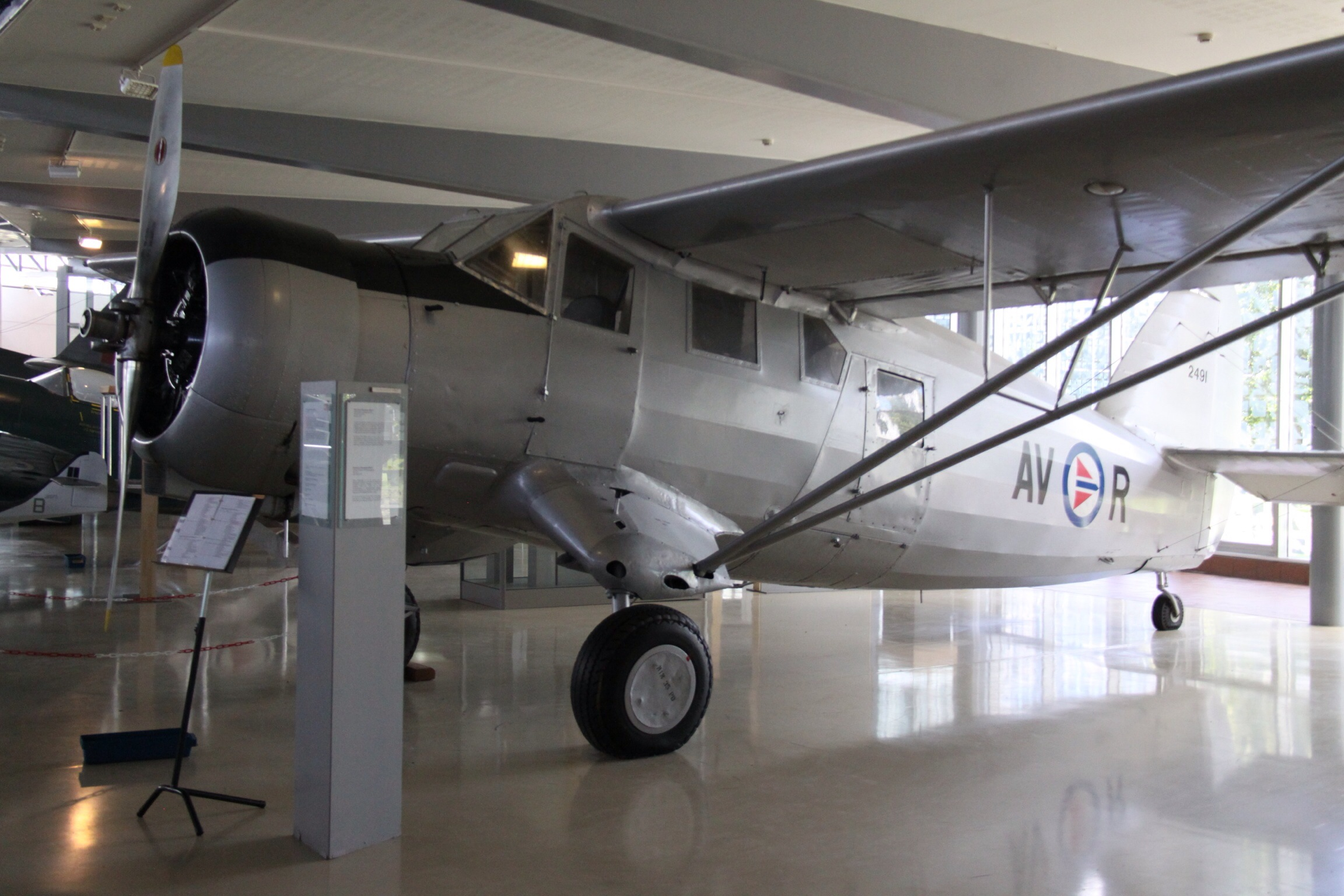 At Oslo Gardermoen